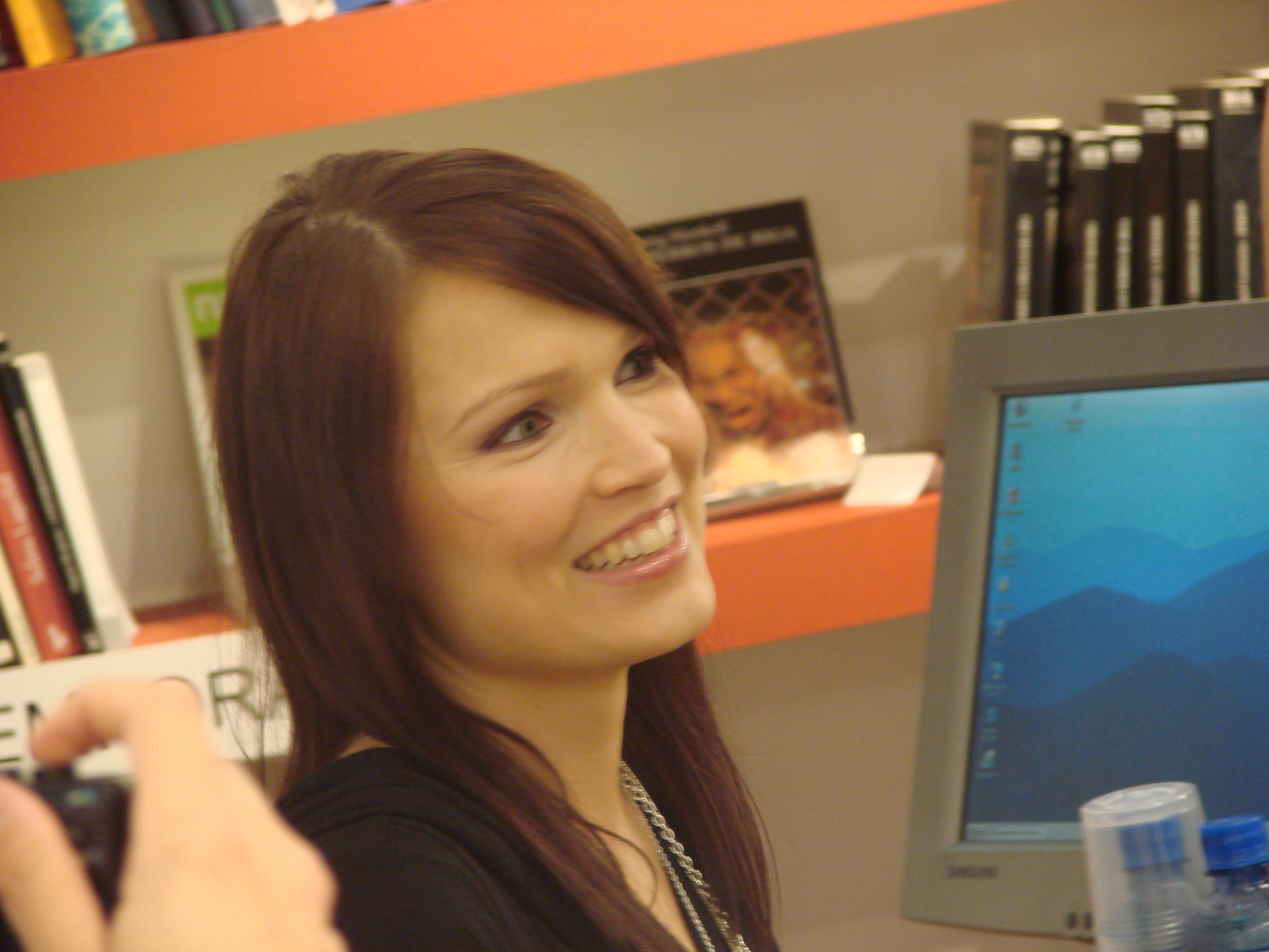 Tarja Turunen, former singer of Nightwish, at the International Book Fair 2007 in Buenos Aires, Argentina.